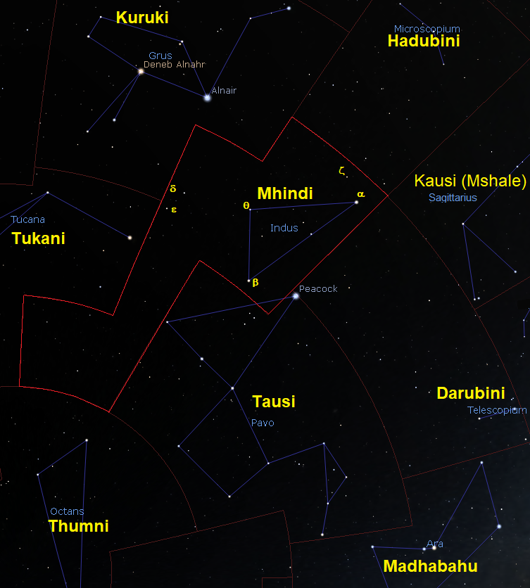 Constellation Indus as seen from Tanzania, Swahili labelled Kiswahili: Kundinyota Mhindi (Indus) jinsi inavyoonekana kutoka Tanzania, majina kwa Kiswahili